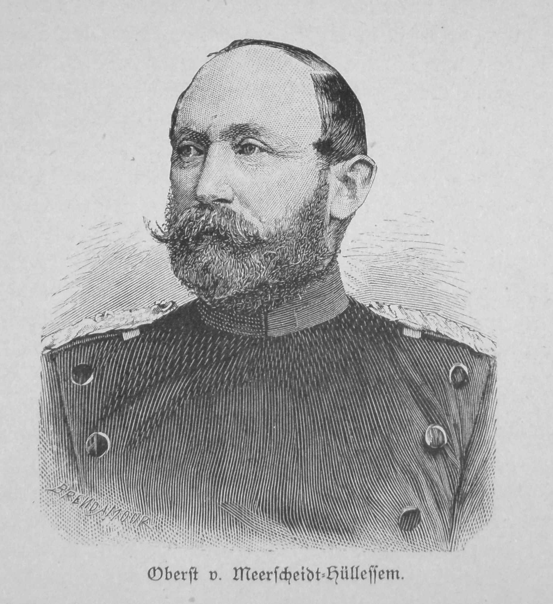 colonel of Meerscheidt-Hüllesem